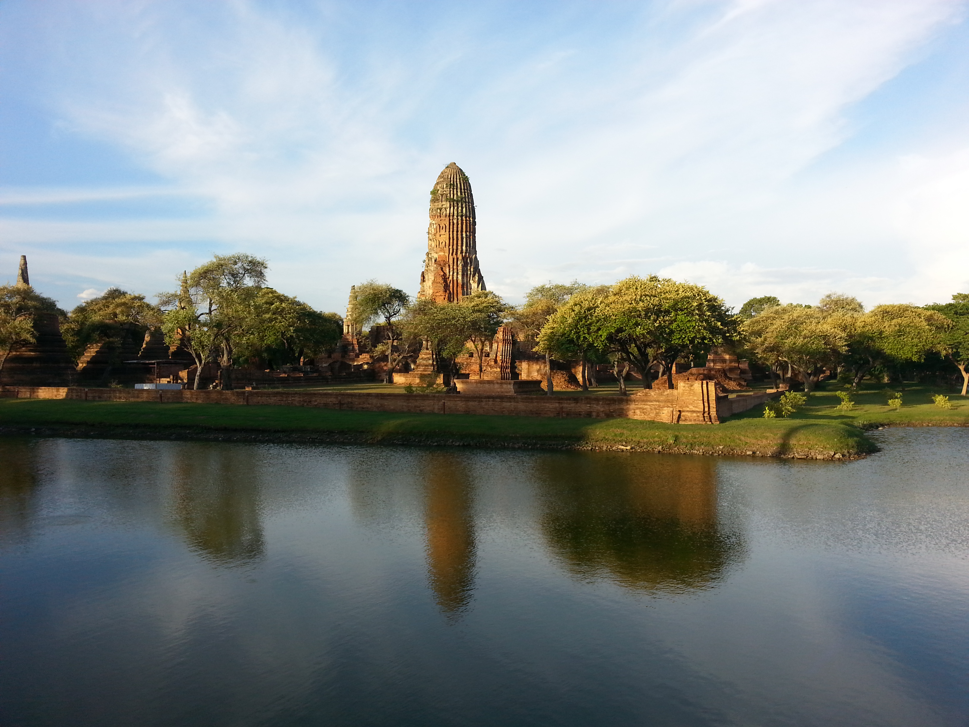 One of the khmer towers in the center of Ayutthaya Historical Park, Ayutthaya, Thailand.